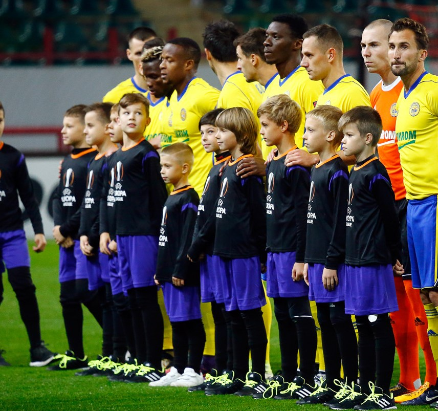 FC Fastav Zlín